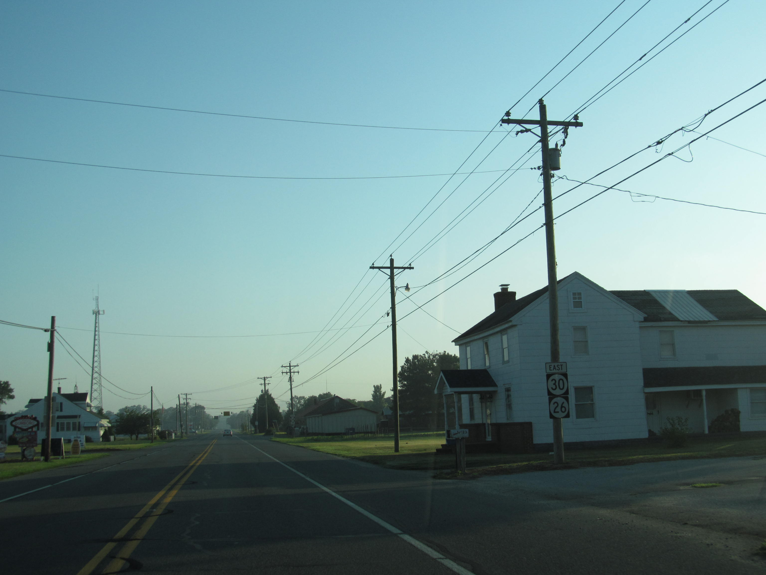 Eastbound Delaware Route 26/Delaware Route 30/Delaware Route 54 (Millsboro Highway) in Gumboro approaching Delaware Route 54 split onto Cypress Road